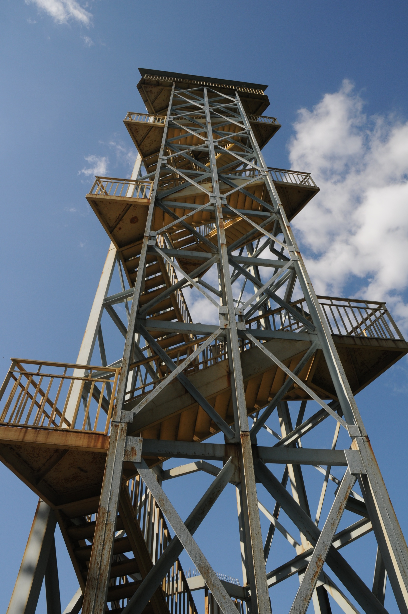 Observation tower